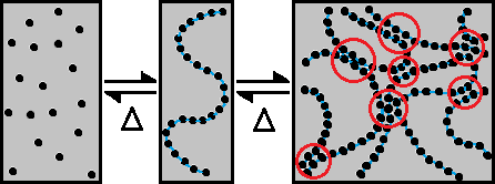 Two step formation of an organogel from orgagelators : first desolvation of organogelators, second supramolecular auto-assembly.